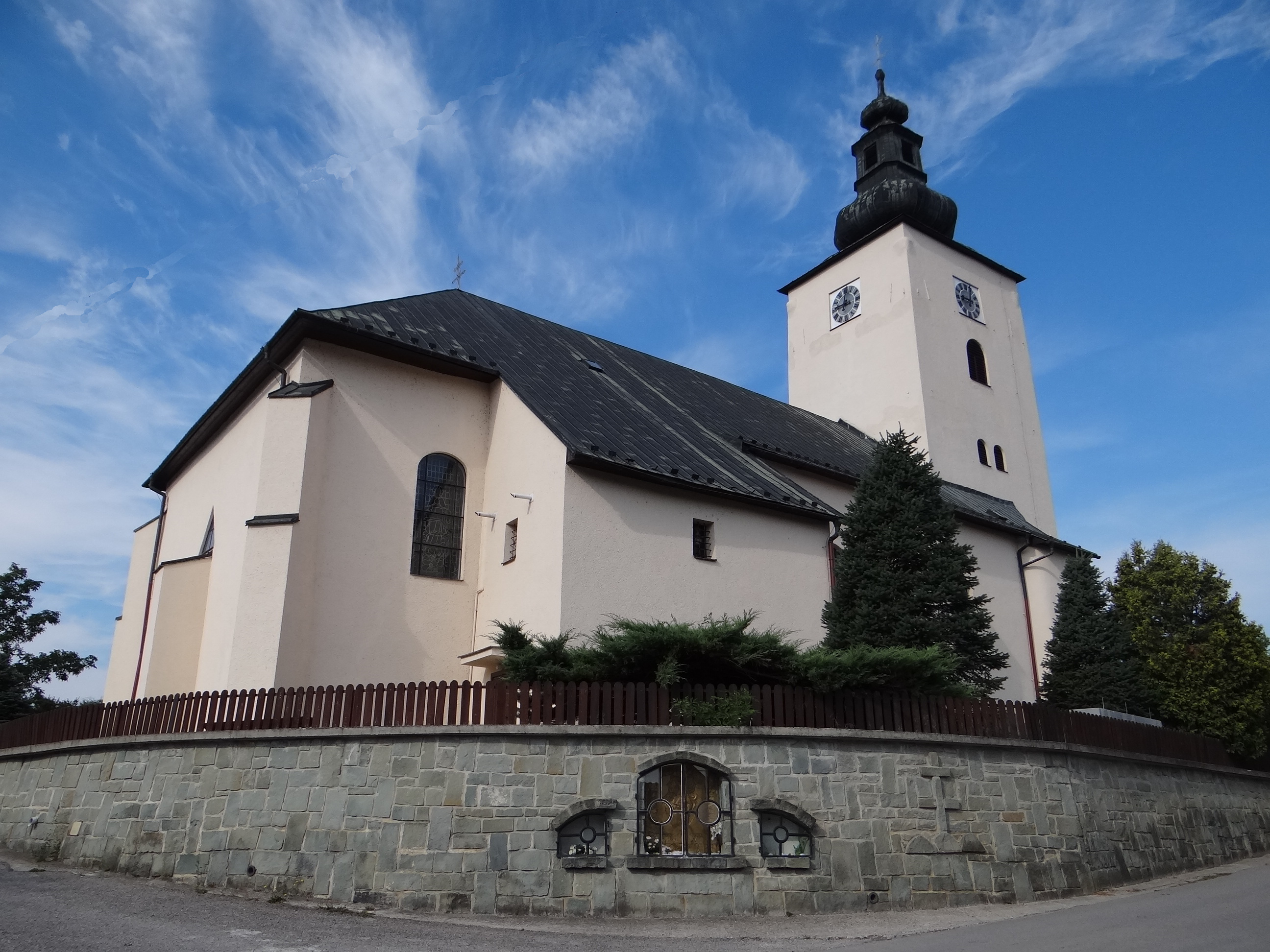 The Church Of The Holy Trinity in the village Varín